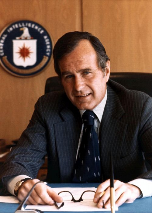 CIA Director (1976 - 1977), George H. W. Bush, at his desk. - Photo Credit: George Bush Presidential Library and Museum